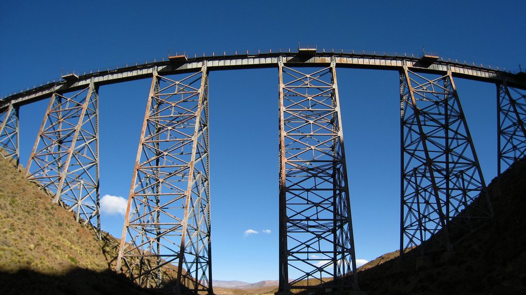 Viaduct "La Polvorilla", in Salta Province, Argentina. One of the highest railways in the world.